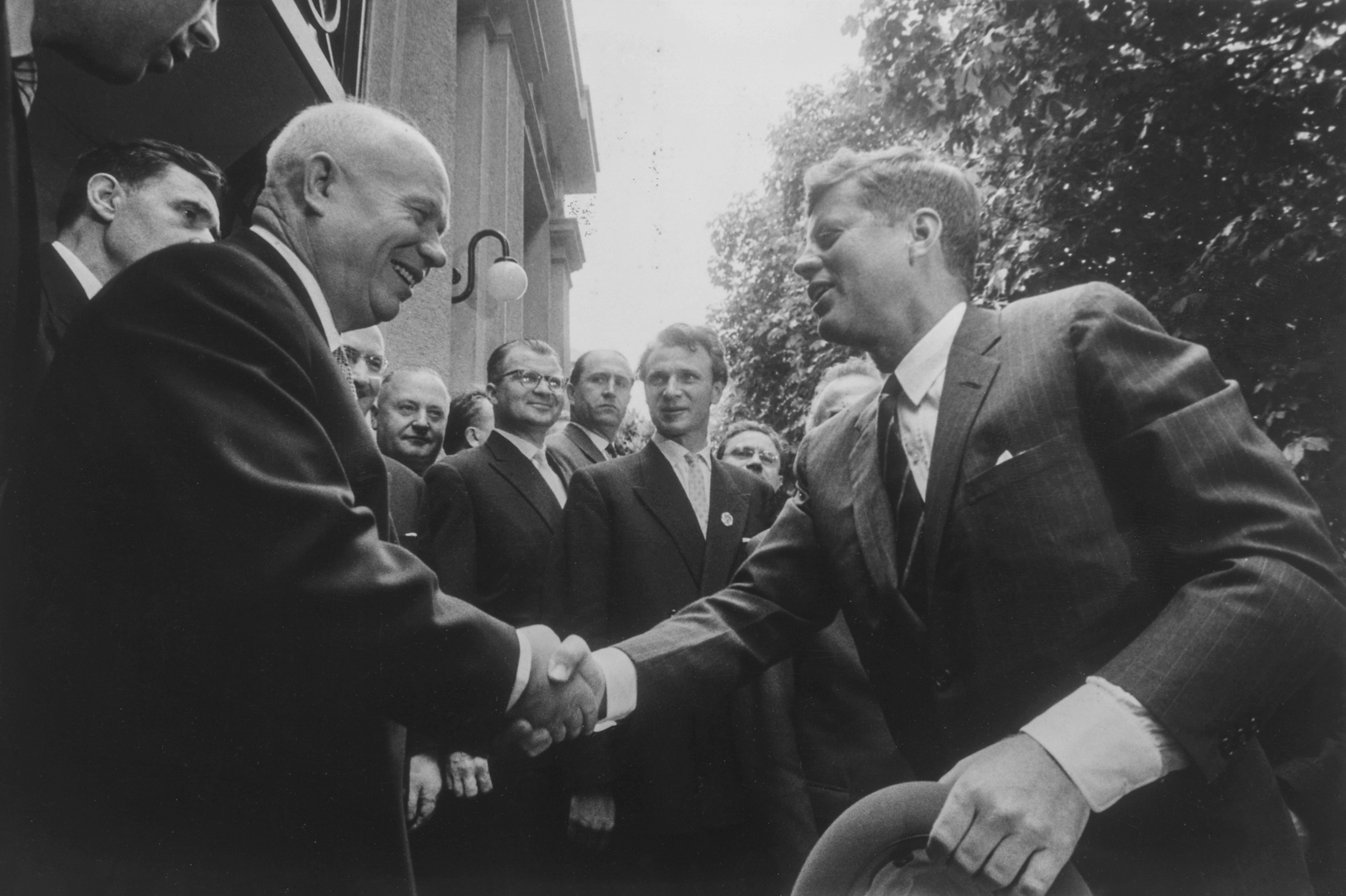 US President John F. Kennedy shaking hands with Soviet leader Nikita Khrushchev.